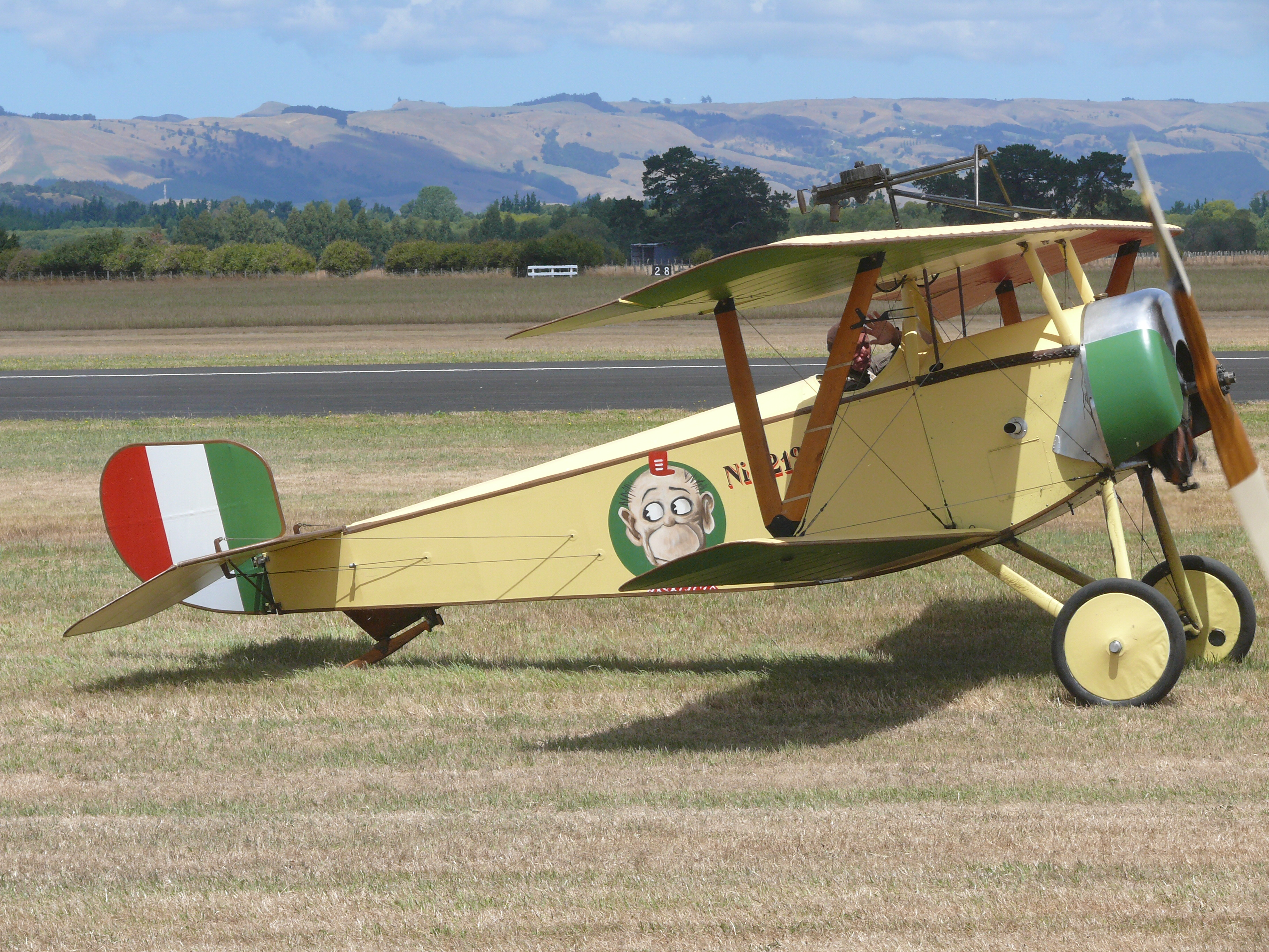 Nieuport 11 flying at Wings over Wairarapa Airshow, Masterton, New Zealand.